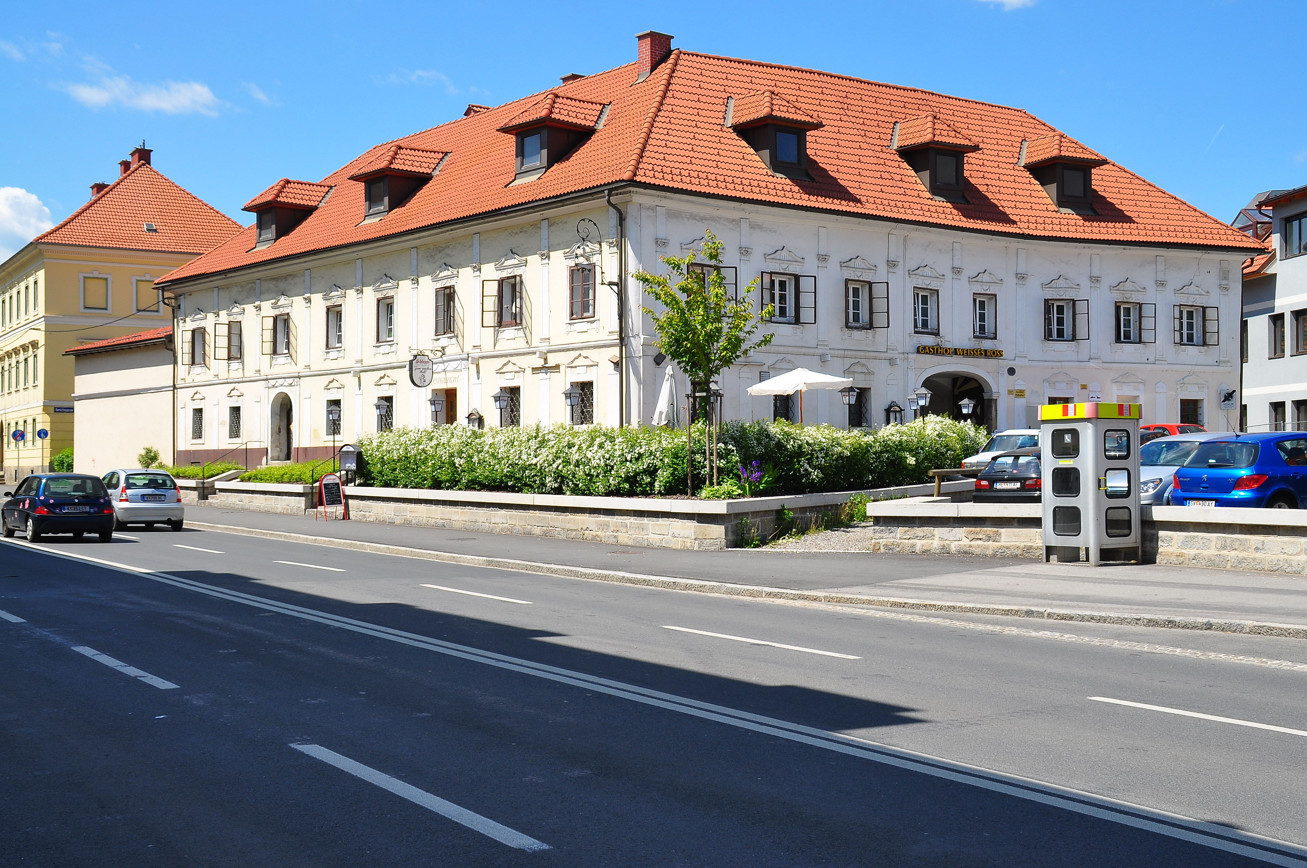 Baroque guesthouse "Weisses Ross" (white stallion) on Sankt-Veiter-Ring #19, situated in the 5th district “Sankt Veiter Vorstadt”, statutary city Klagenfurt, Carinthia, Austria, EU